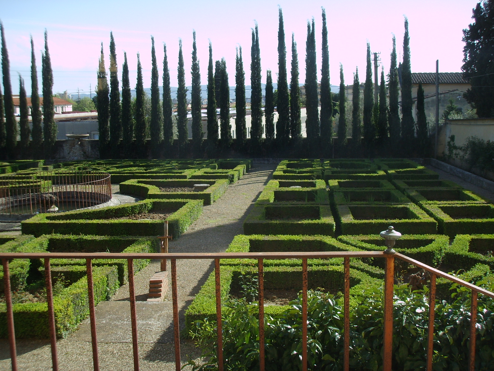 The Parterres, in the Italian Renaissance garden at Villa Corsini — Florence — Tuscany, Italy.